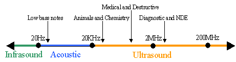 Heath Raftery, own creation, . Rough diagram of sound frequency scale, showing ultrasound and some applications.